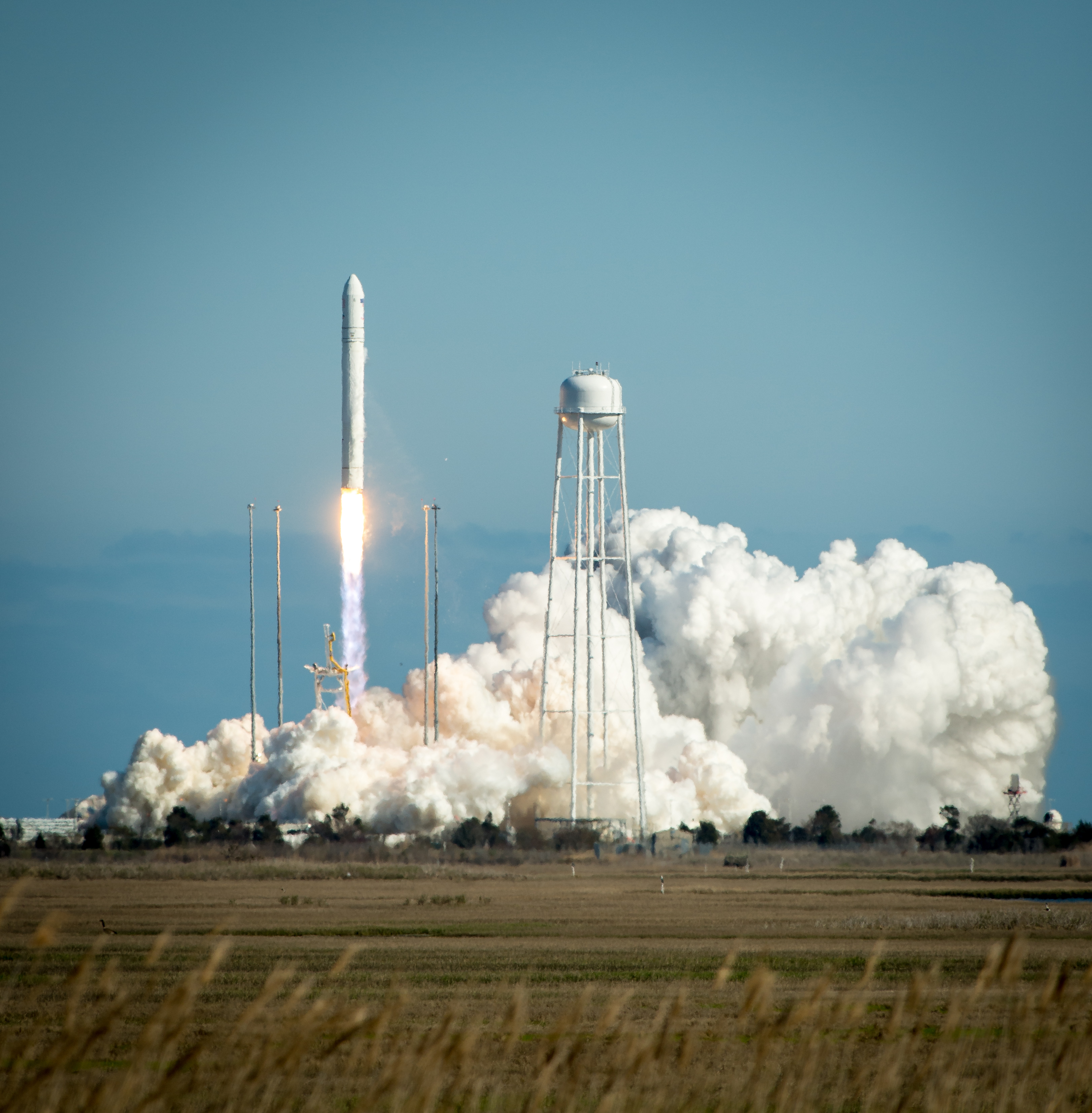 The Orbital Sciences Corporation Antares rocket is seen as it launches from Pad-0A of the Mid-Atlantic Regional Spaceport (MARS) at the NASA Wallops Flight Facility in Virginia, Sunday, April 21, 2013. The test launch marked the first flight of Antares and the first rocket launch from Pad-0A. The Antares rocket delivered the equivalent mass of a spacecraft, a so-called mass simulated payload, into Earth's orbit.